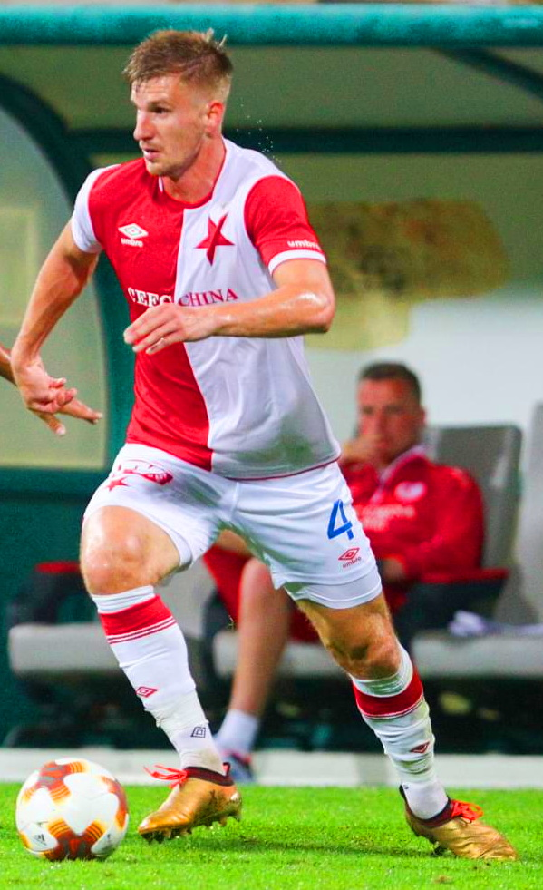 25.01.2018. Объединенные Арабские Эмираты, Дубай, «Мактум ибн Рашид Аль-Мактум». «Газпром»-тренировочные сборы в Дубае: товарищеский матч «Зенит» — «Славия».